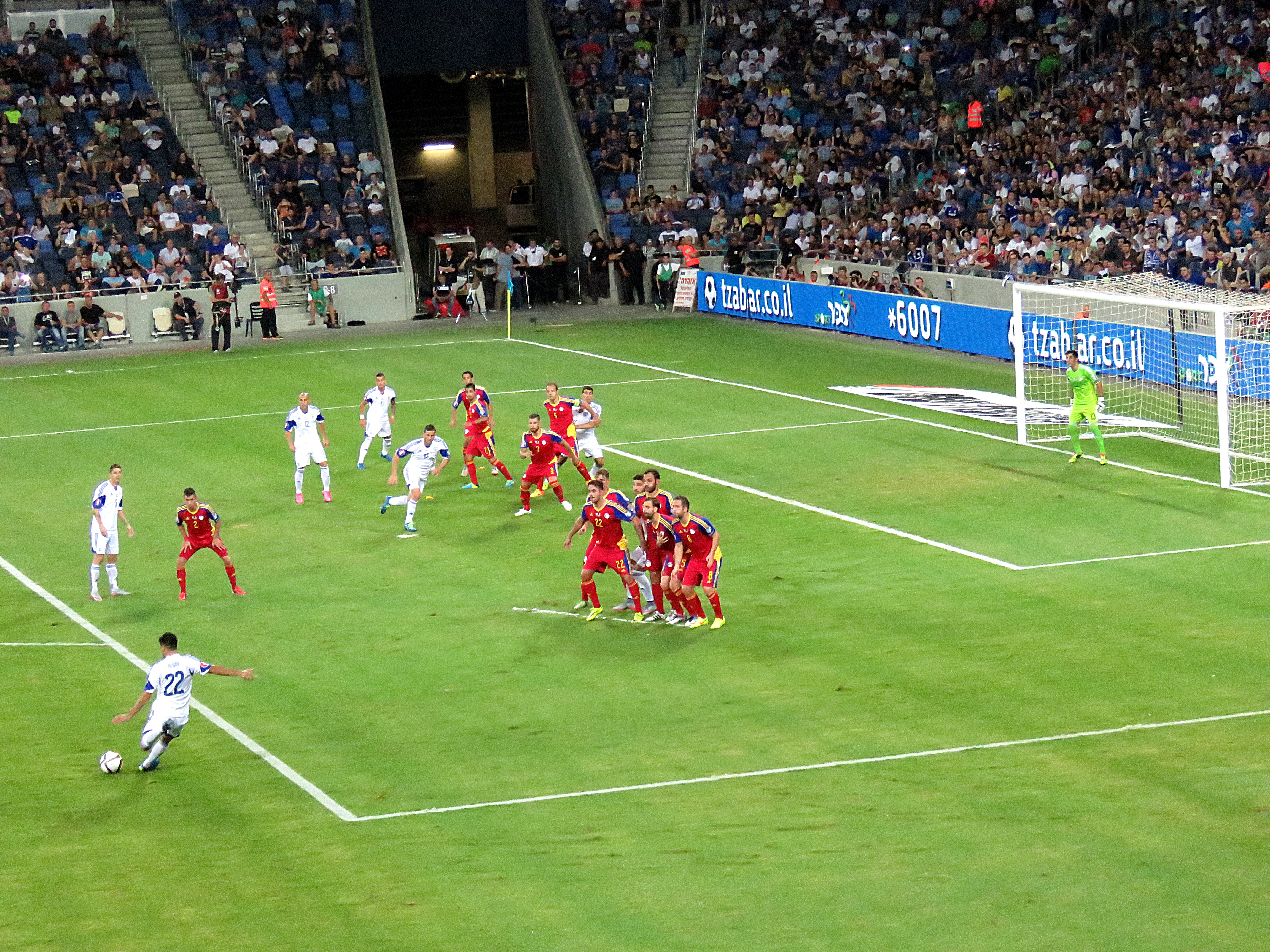 Israel vs. Andorra - September 3, 2015